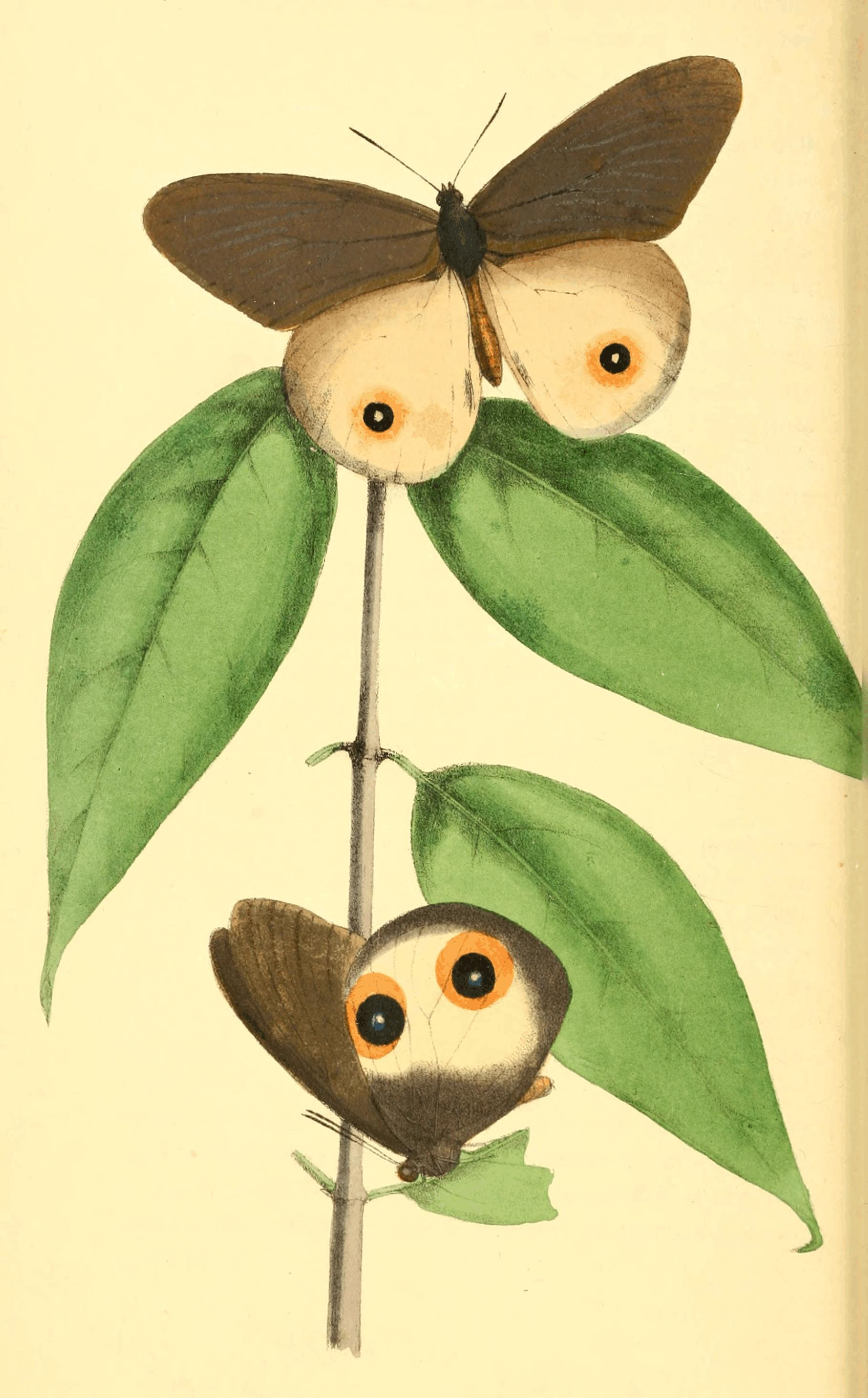 Plate 11. Drusilla Horsfieldii. Modern accepted name (2012) is Taenaris horsfieldii[1]. Represented on a sprig of Gærtnera racemosa (synonym of Hiptage benghalensis).